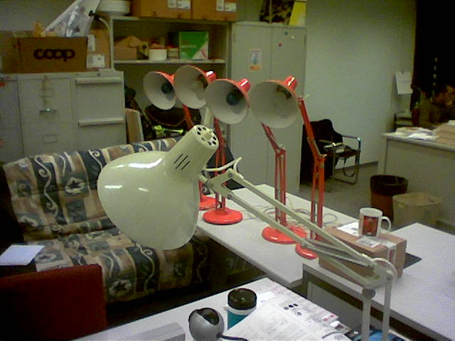 Architect lamps